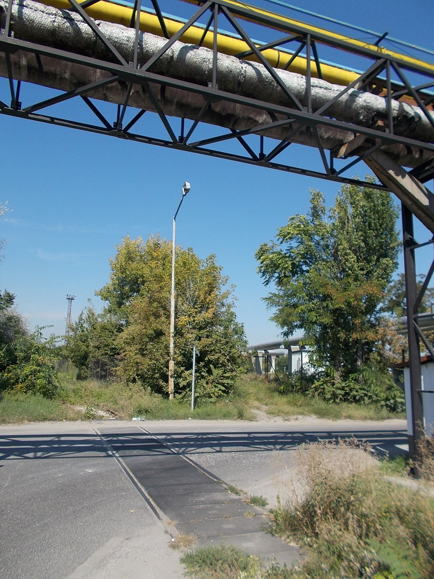 Pipeline and rail transport - Mag Street corner, Budapest District XXI., Budapest.